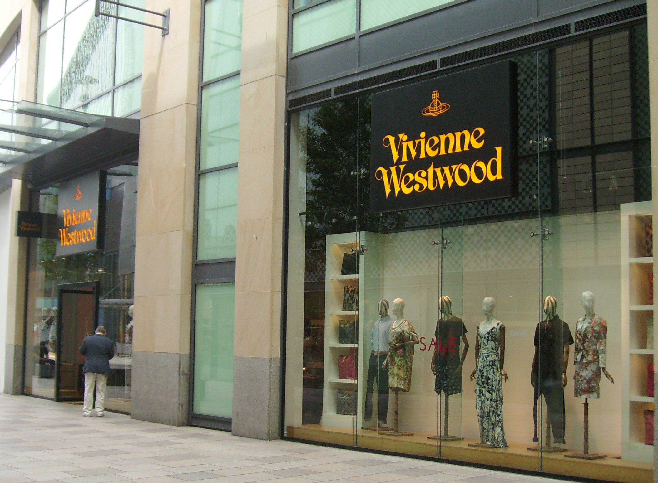 Vivienne Westwood, St David's shopping centre, Cardiff, Wales